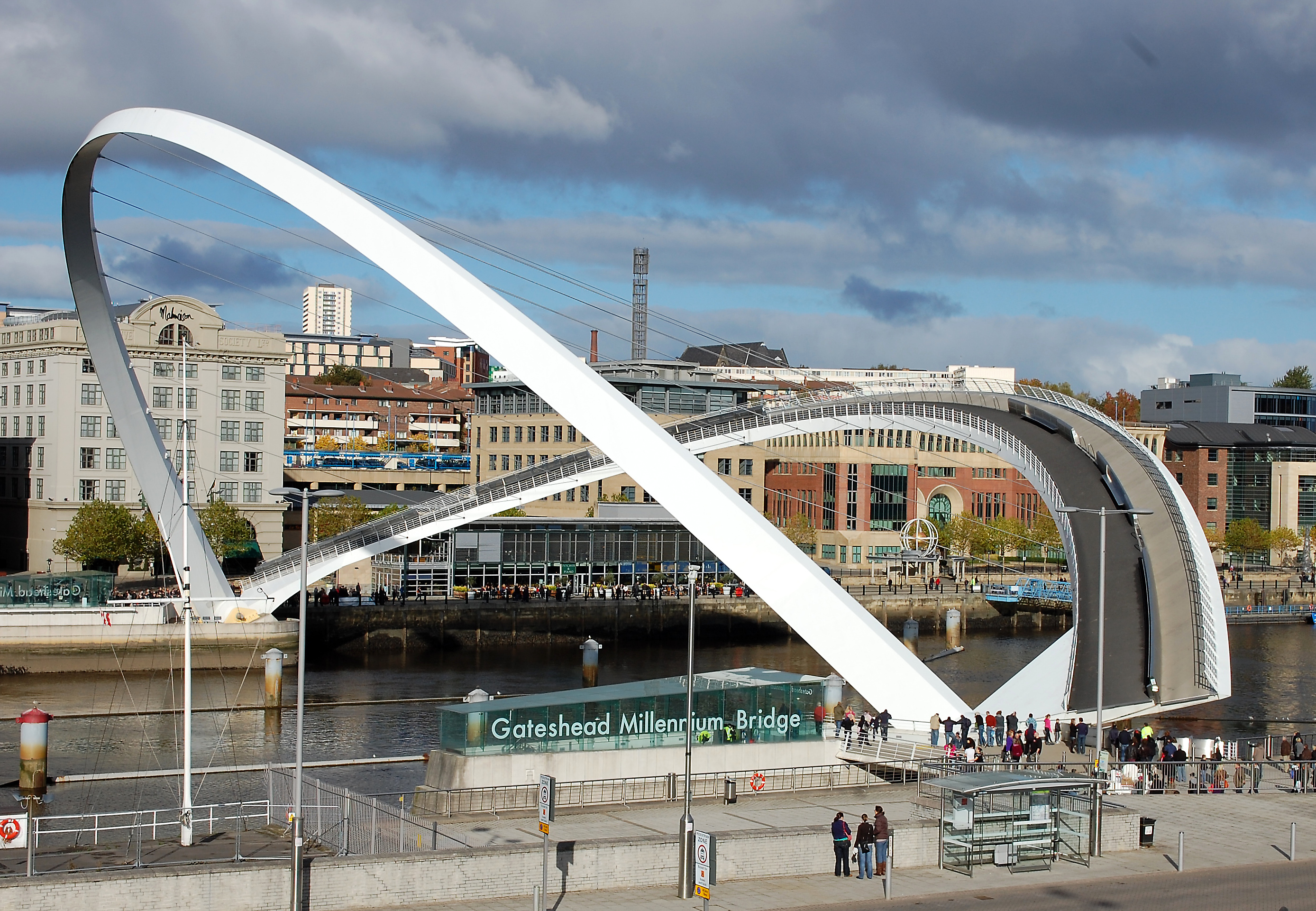 Newcastle's Millenium Bridge from The Sage as it comes back down